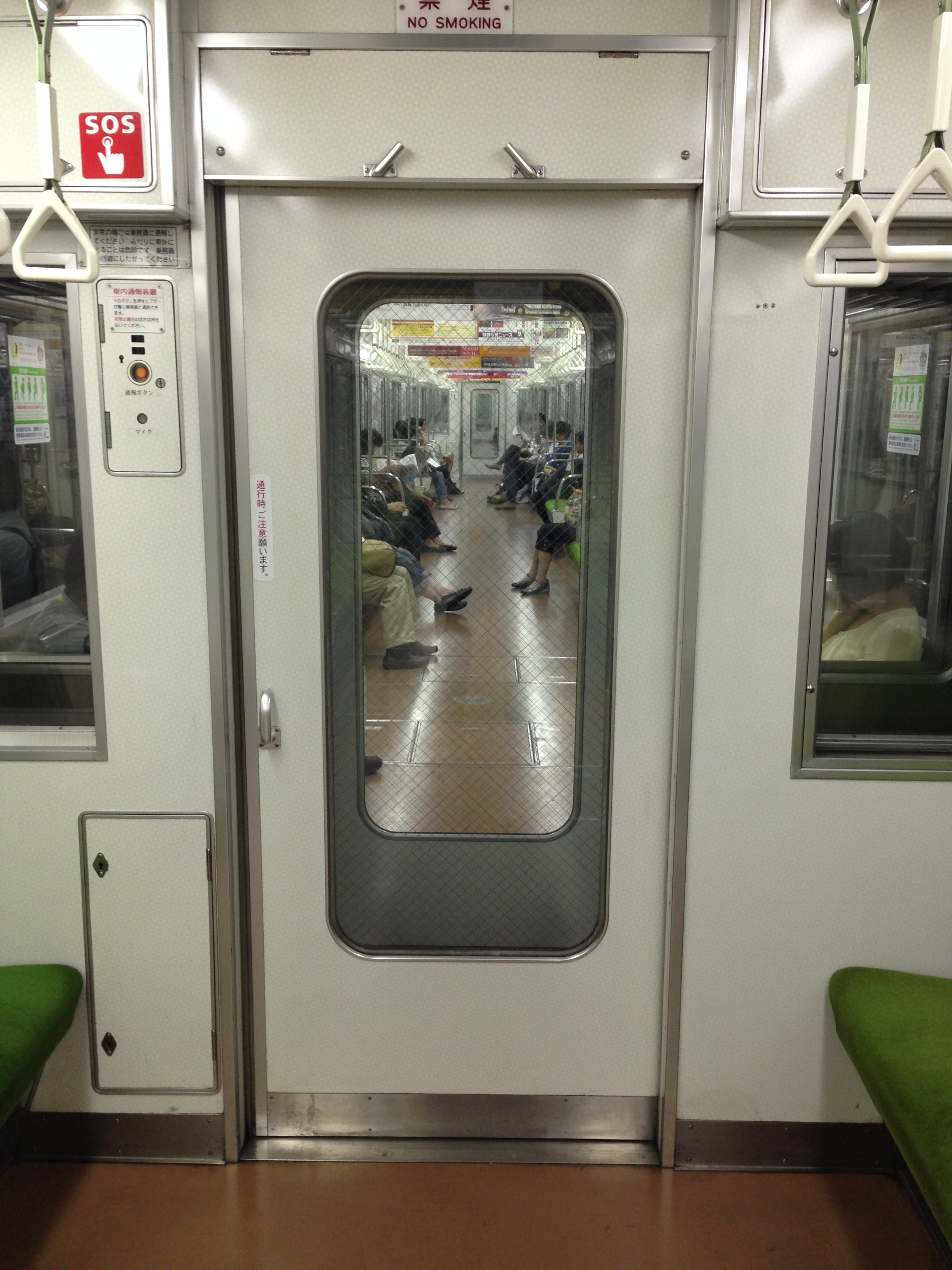 Doors between carriages on a Kyoto Subway 10 series batch 6 train